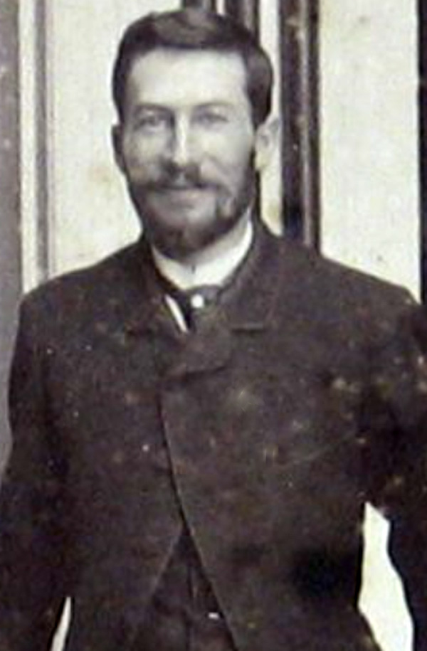 Dr Frank Nyulasy, owner of Toorak Manor, 1886.